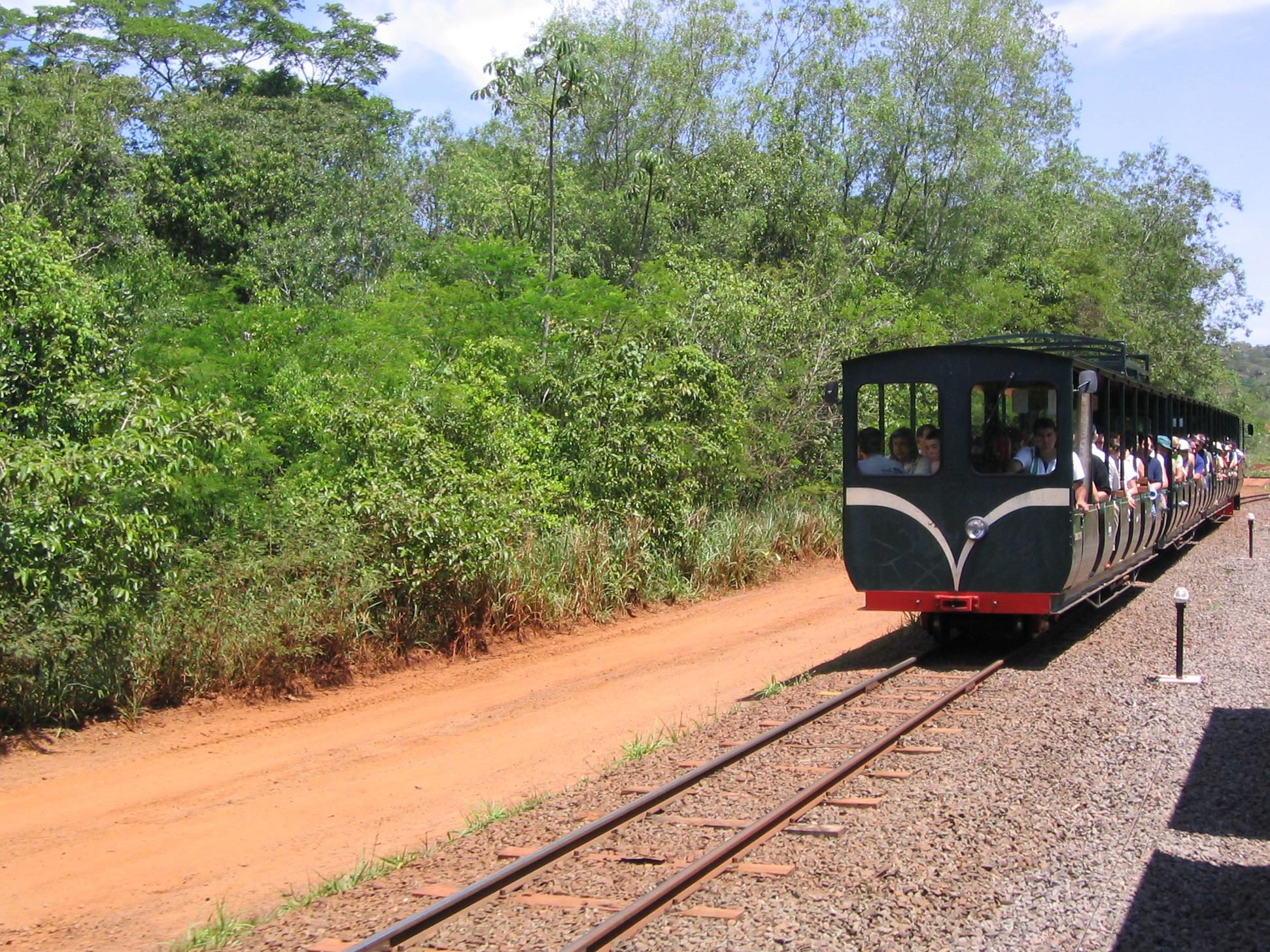 Tourist train @ Iguazu National Park